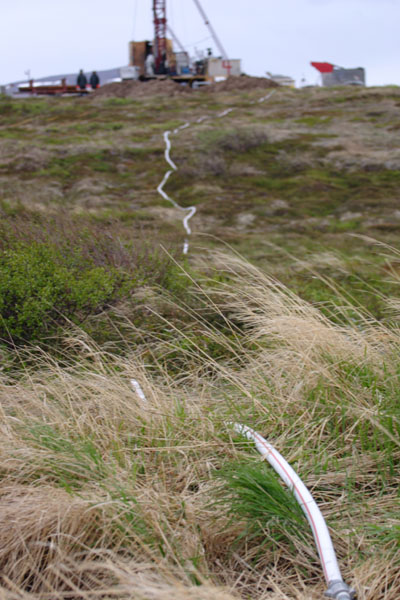 Erin McKittrick